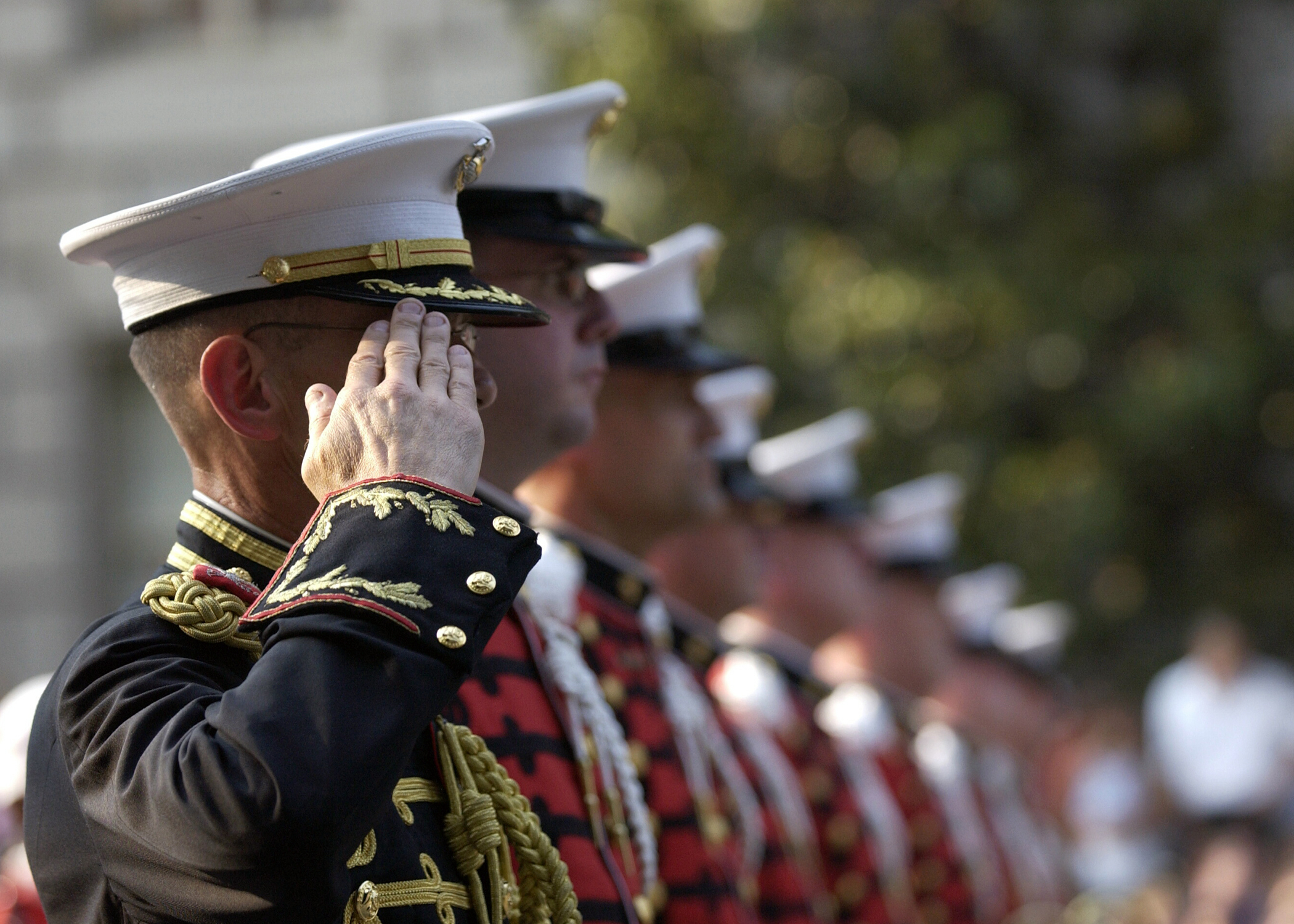 Washington, D.C. (Jun. 9, 2004) - The U.S. Marine Band, the "Presidents Own," escorts former President Ronald Reagan to the Capitol Rotunda were his body will remain in state for Public viewing until Friday June 11,2004. A state funeral will be conducted late Friday morning at the Washington National Cathedral, where President Bush will give the eulogy. Later that day, President Reagan's body will return to Calif., for a private burial service. U.S. Navy photo by Photographer's Mate 2nd Class Aaron Peterson (RELEASED)